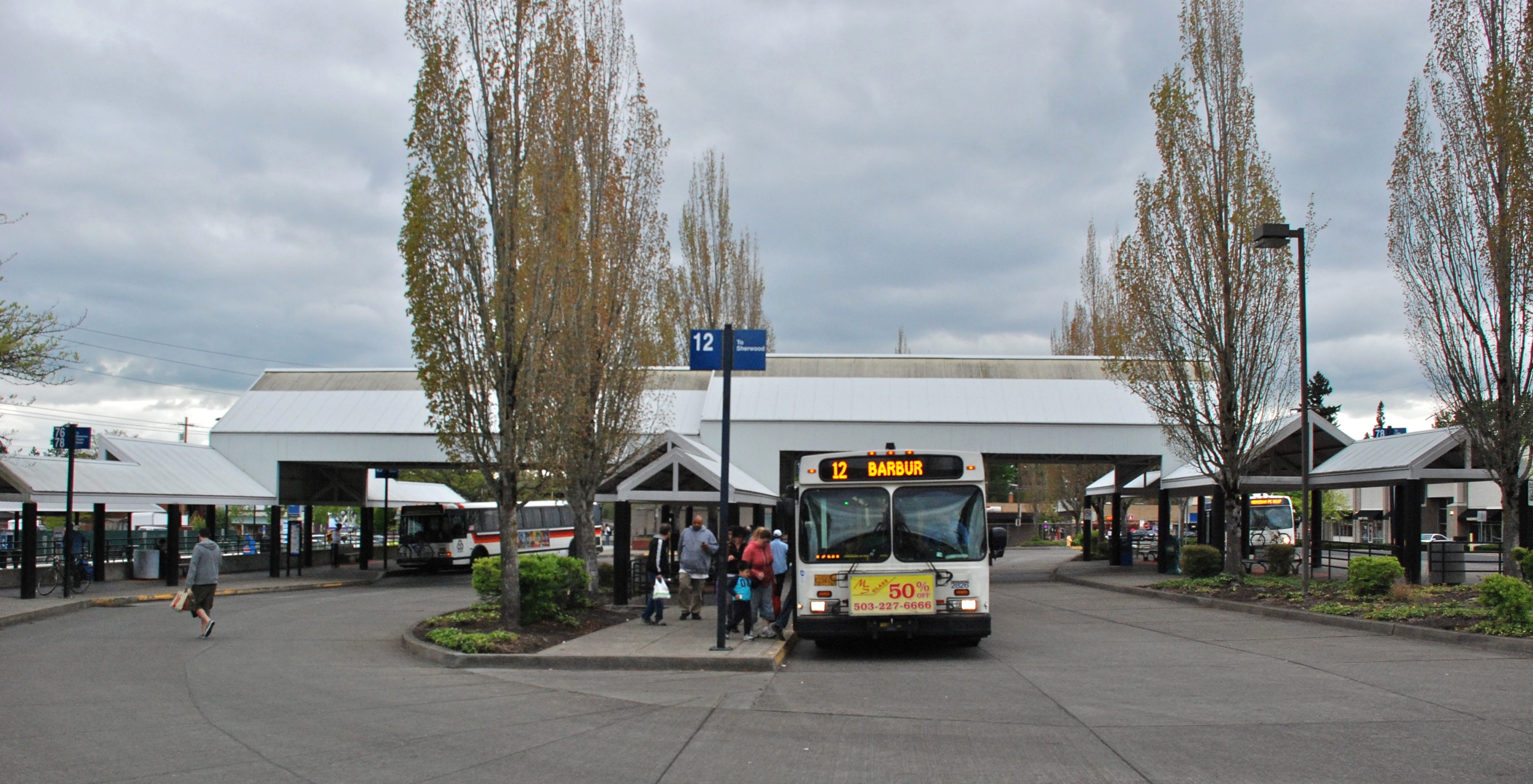 TriMet's Tigard Transit Center, in Tigard, Oregon, with buses loading or laying over in all three lanes. In the central lane, bus 2826 (a 2005 New Flyer D40LF) is loading on line 12-Barbur Blvd, en route to Sherwood. The transit center opened for buses in 1988. A commuter-rail station was opened adjacent in 2009, for TriMet's rush-hour-only Westside Express Service (WES). (The buses in the background were on lines 45 and 76.)